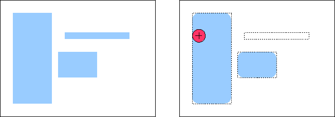 Illustration of morphological opening of binary images.